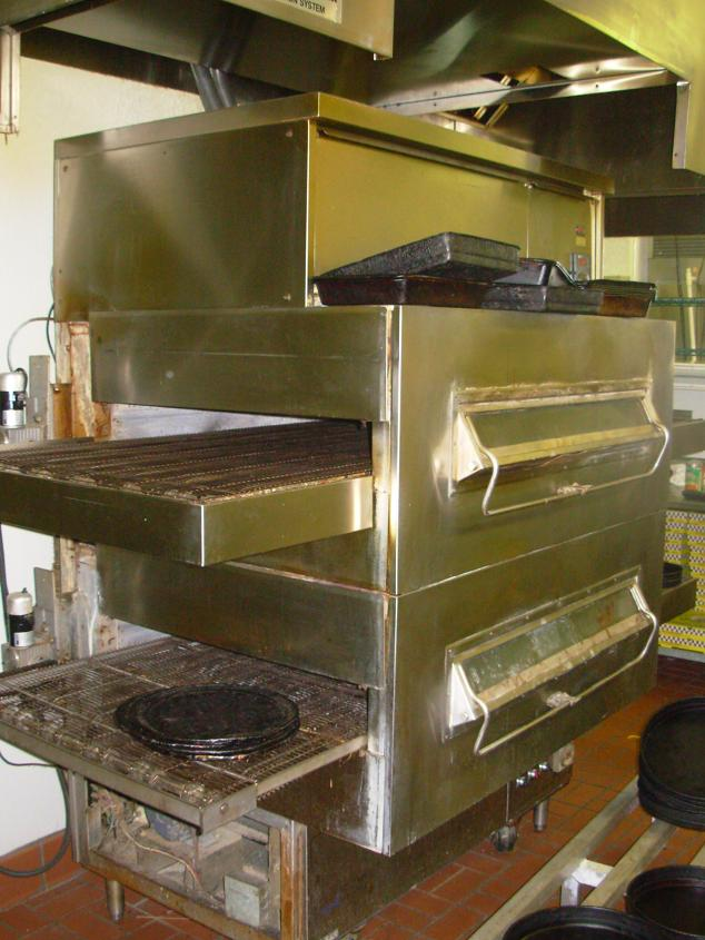 Impingement oven.